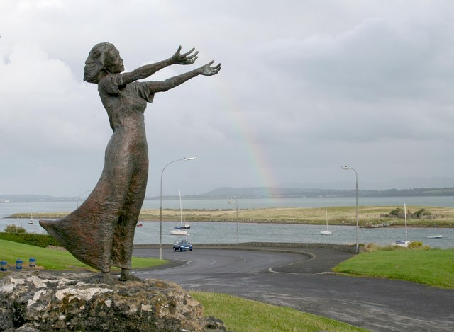 "Waiting On Shore" Rosses Point. The sculpture, by Niall Breton, reflects the age-old anguish of a seafaring people who watched for the safe return of loved ones. Unveiled in 2002. Looking over Oyster Island in "Sligo Harbour"